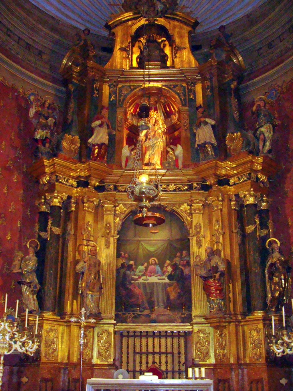 Church of Our Lady of the Angels in Pollença